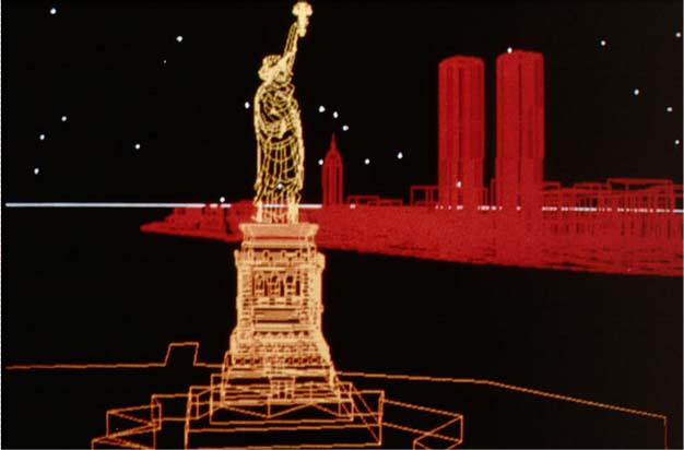 Frame of the movie Dream Flight, directed by Philippe Bergeron, Nadia Magnenat Thalmann, and Daniel Thalmann